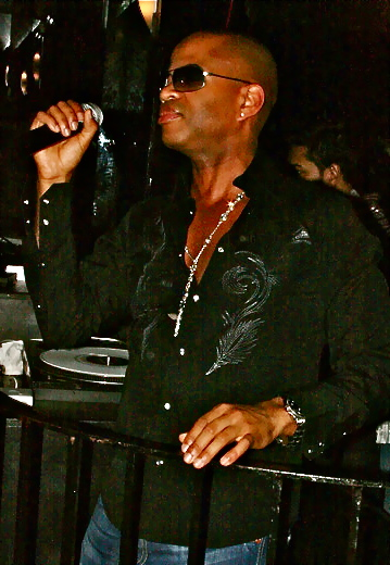 Chris Willis Performing Live